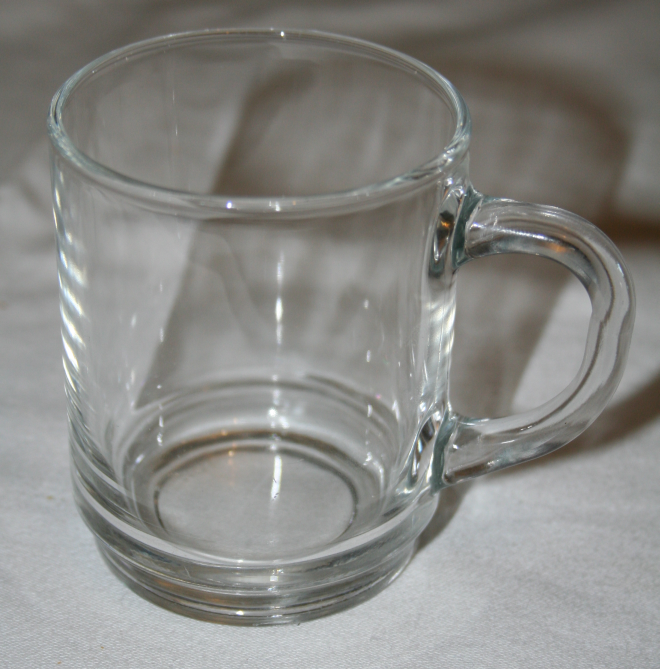 Empty tea glass.